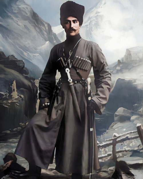 Ingush (Ghalghai)